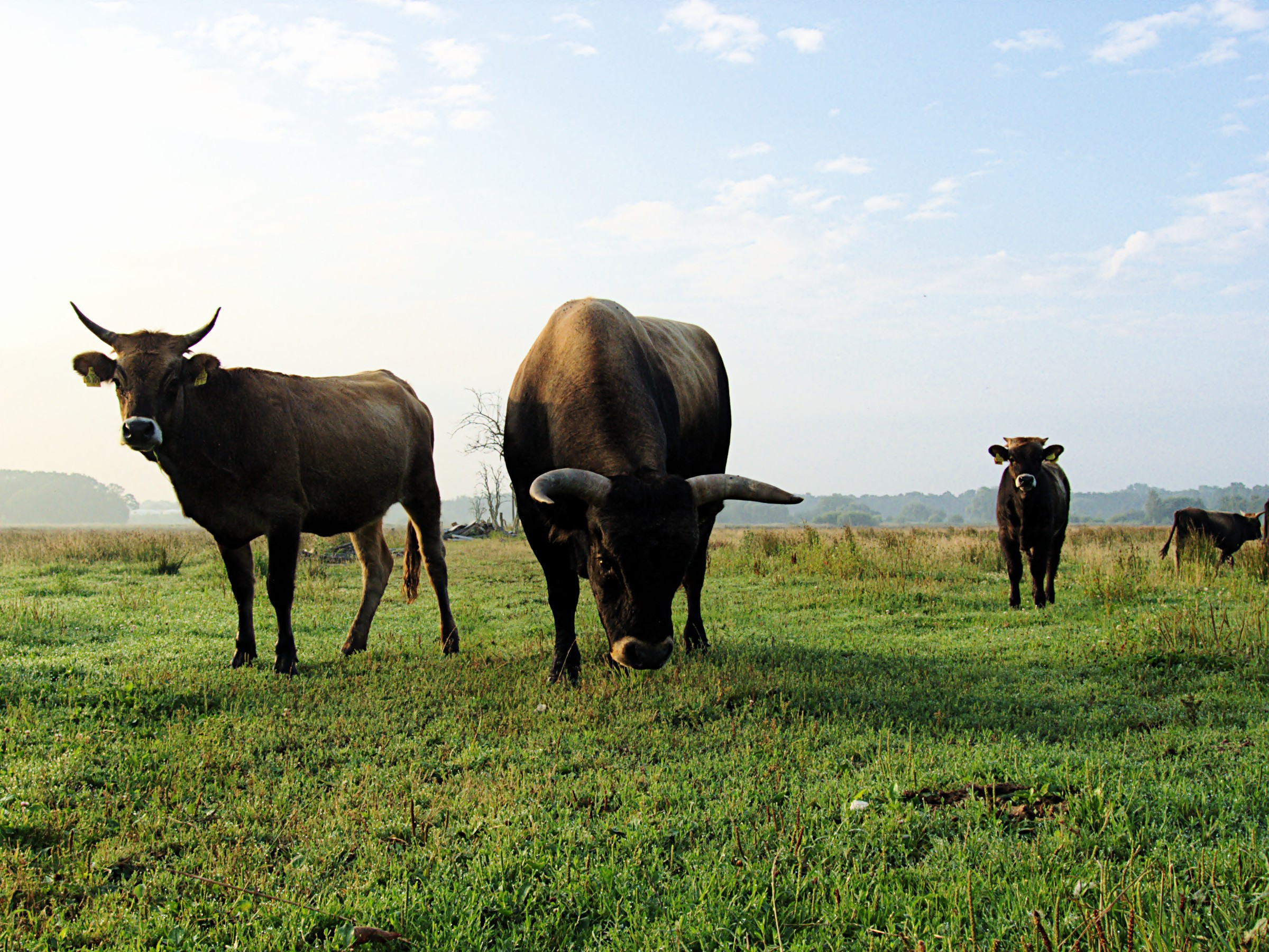 Bos taurus taurus (Heck cattle). Location: Münster, NRW, Germany (Naturerlebnisraum Rieselfelder)